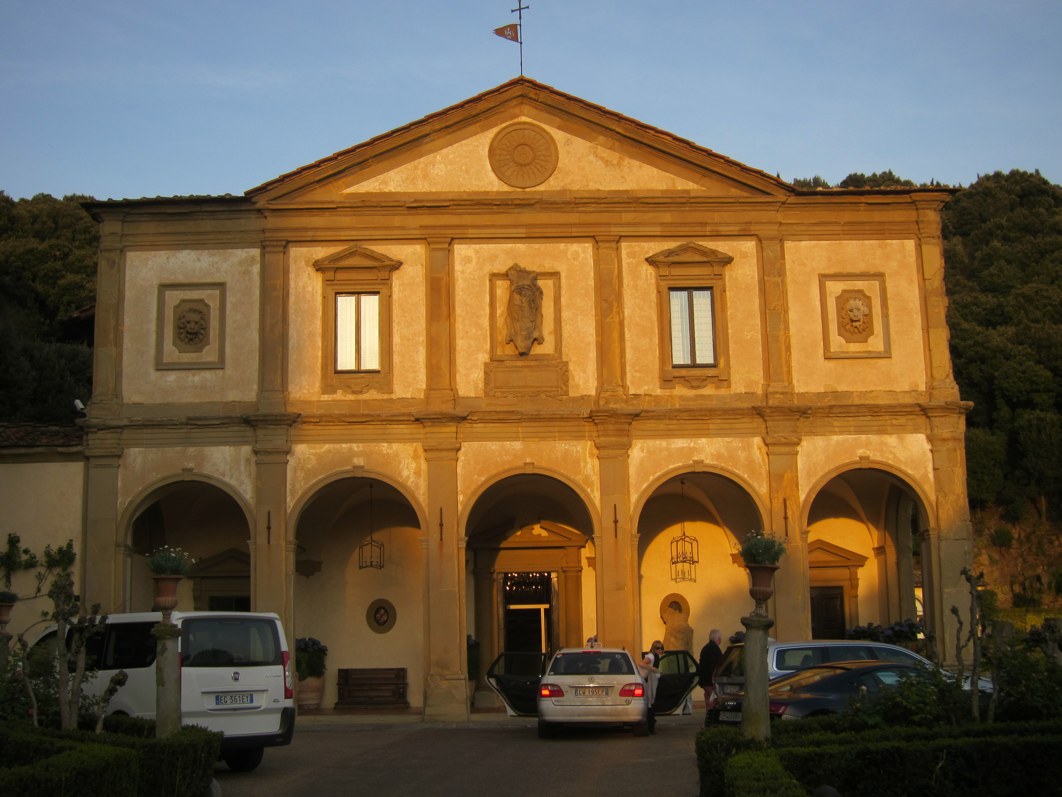 see above